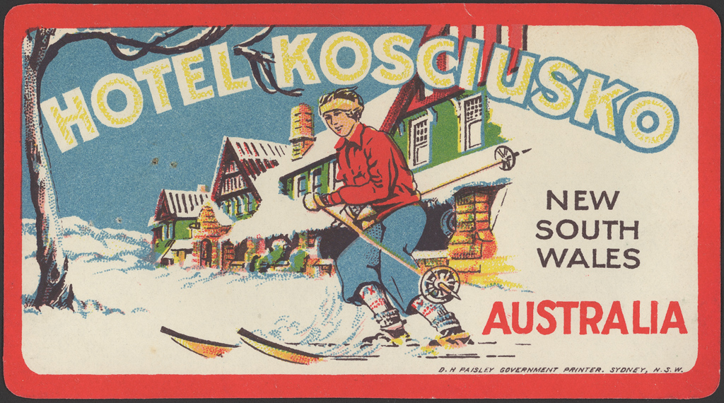 Series: NRS16410 - Albums of Travel and Advertising Brochures Title: Kosciusko Snow Sports [Cover] Dated: 1938-1941 Item: [1A_4] Rights: More information about these records is on our catalogue, [ 16410 Many other photos in our collection are available to view and browse on our website using Photo Investigator].